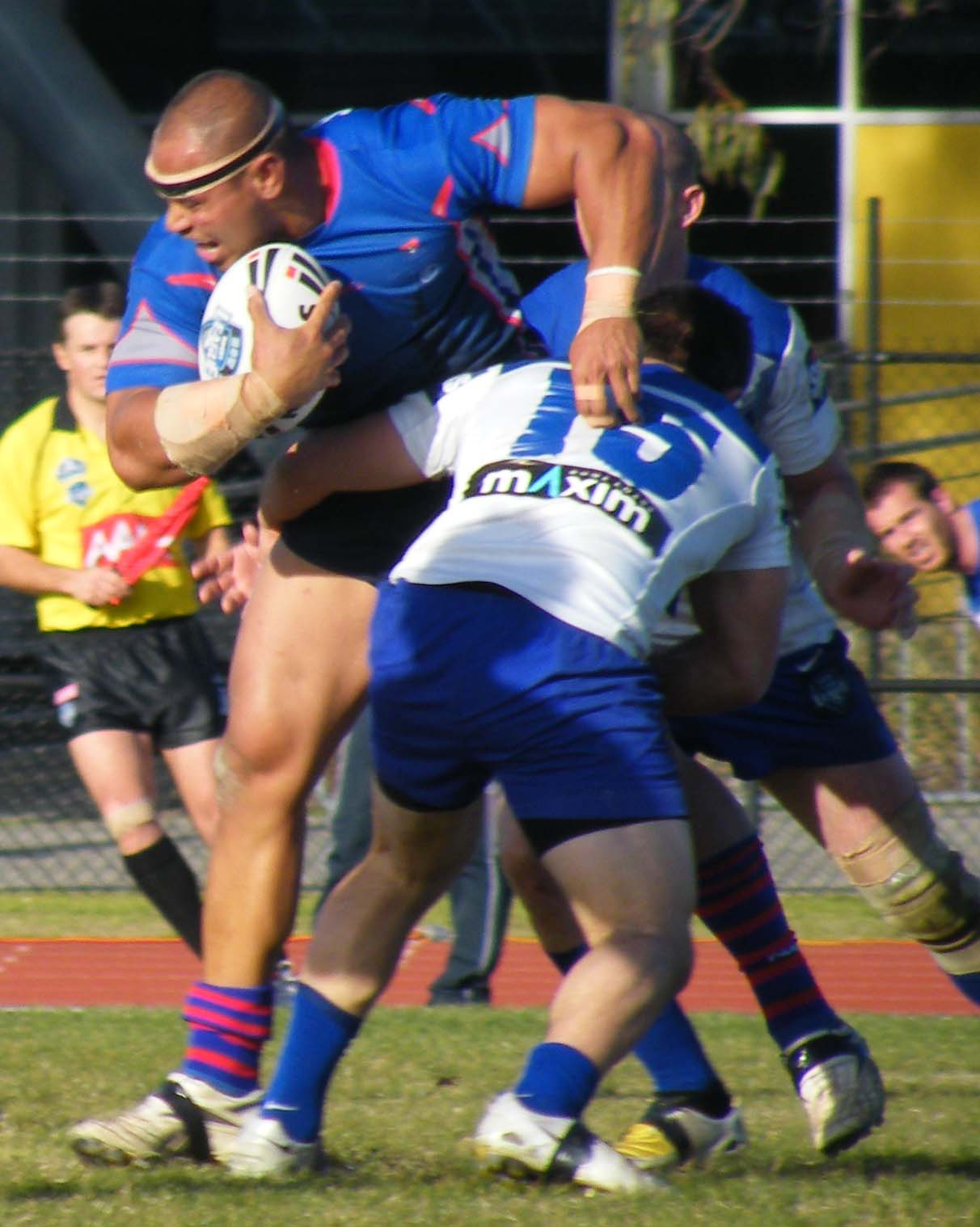 Central Newcastle Prop and former Mr Tonga Sione Finefuaiki in action against Canterbury Bankstown Bulldogs - Crest Stadium 19 July 2008.